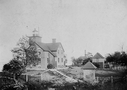 Image of the Forty Mile Point Lighthouse